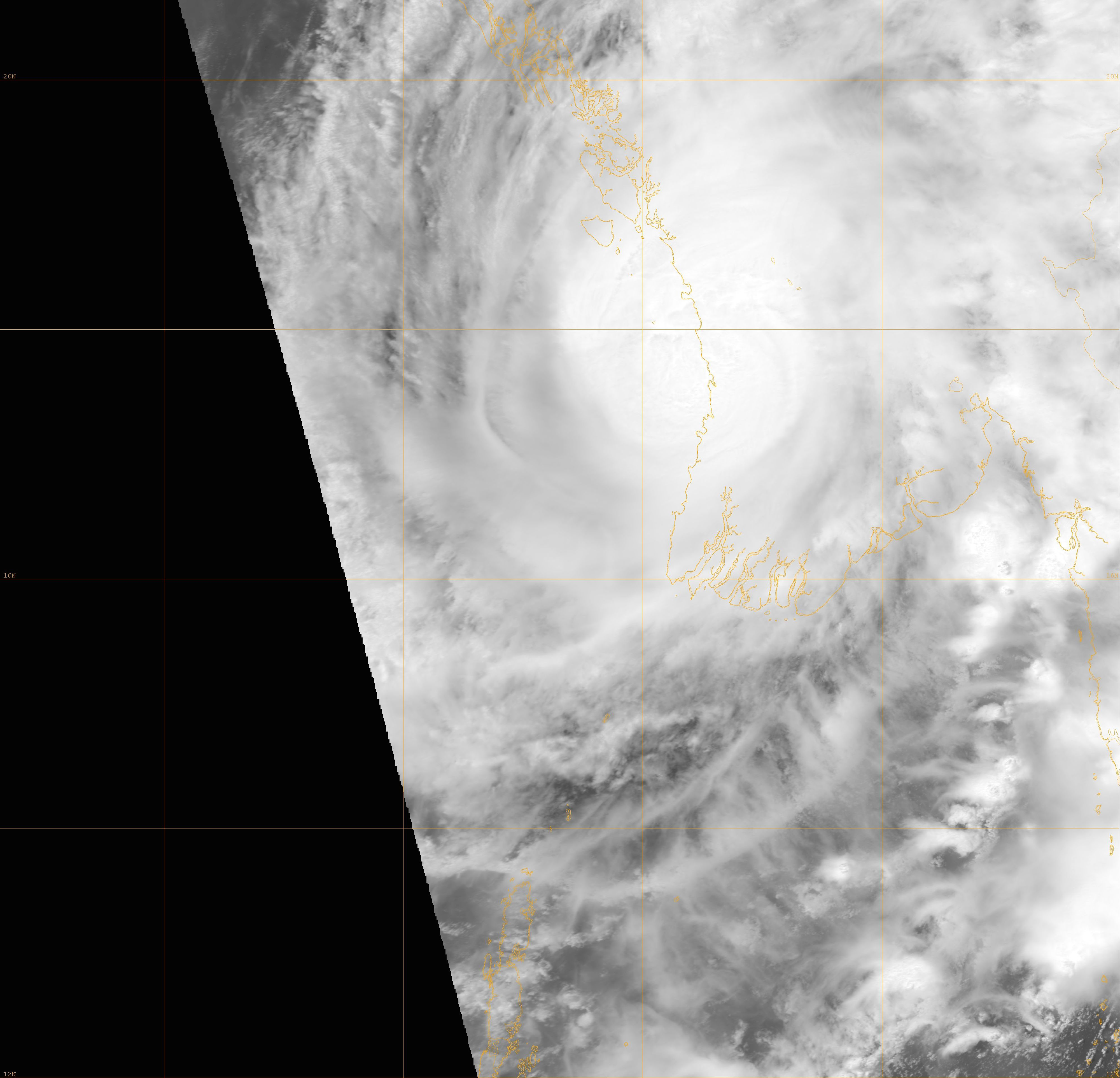 Satellite image of Cyclone Mala as it made landfall in Myanmar on April 29, 2006